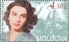 Maria Tanase ? (1913-1963) Stamp of Moldova